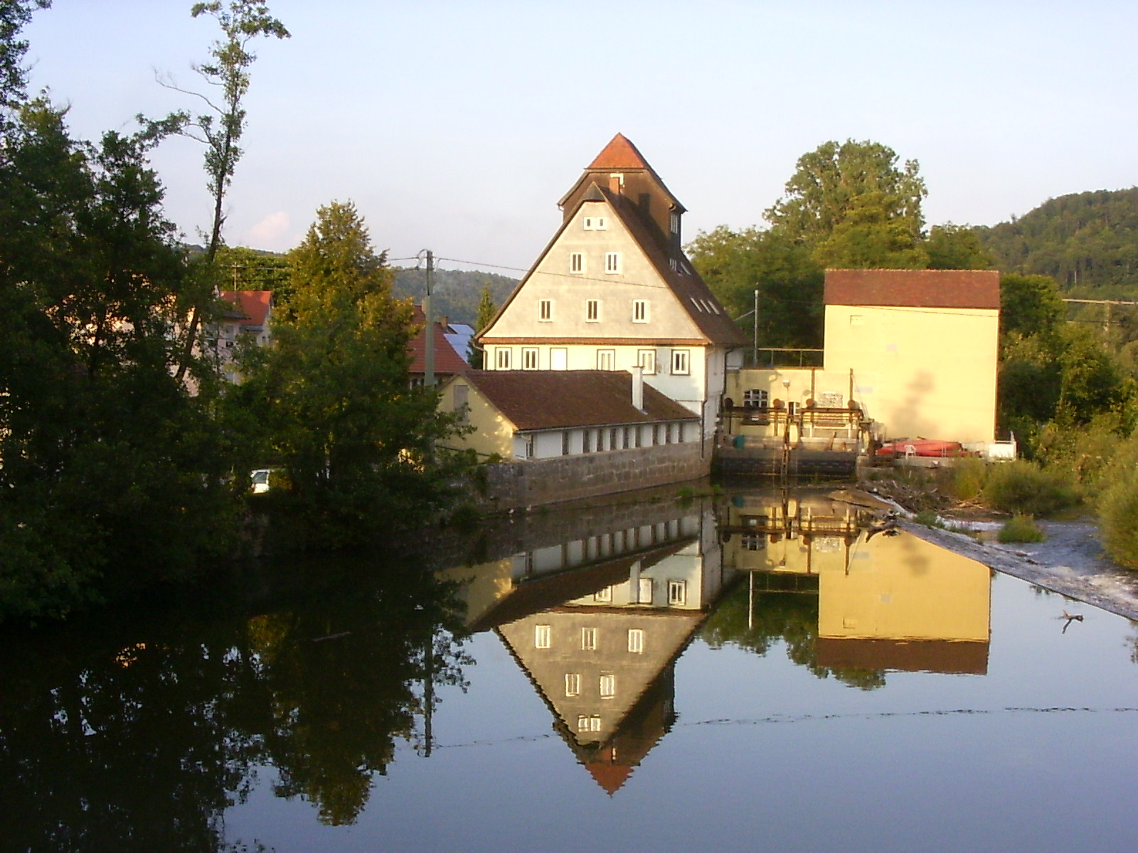 Watermill Untermünkheim/Kocher